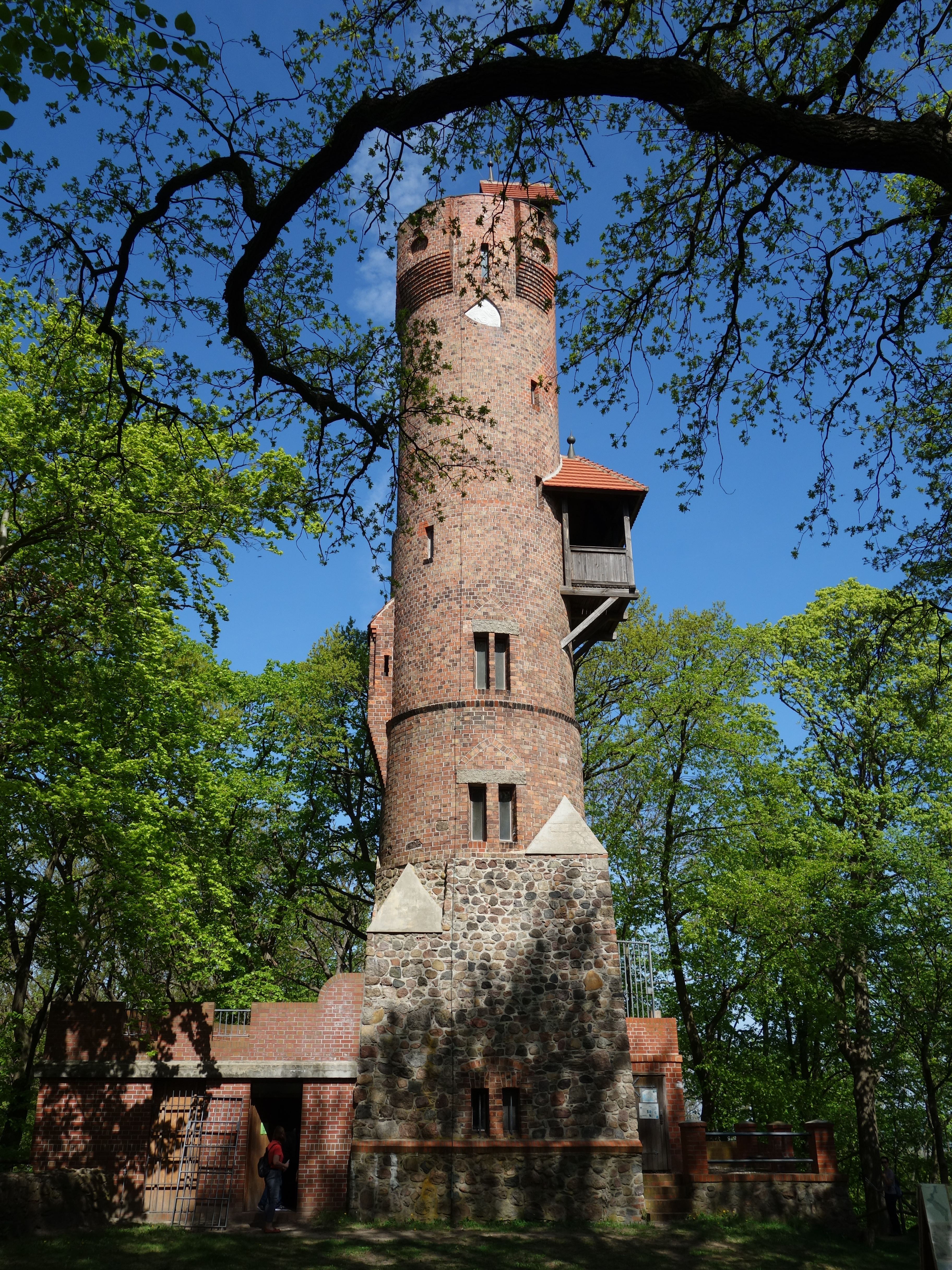 Bismarckturm Bad Freienwalde